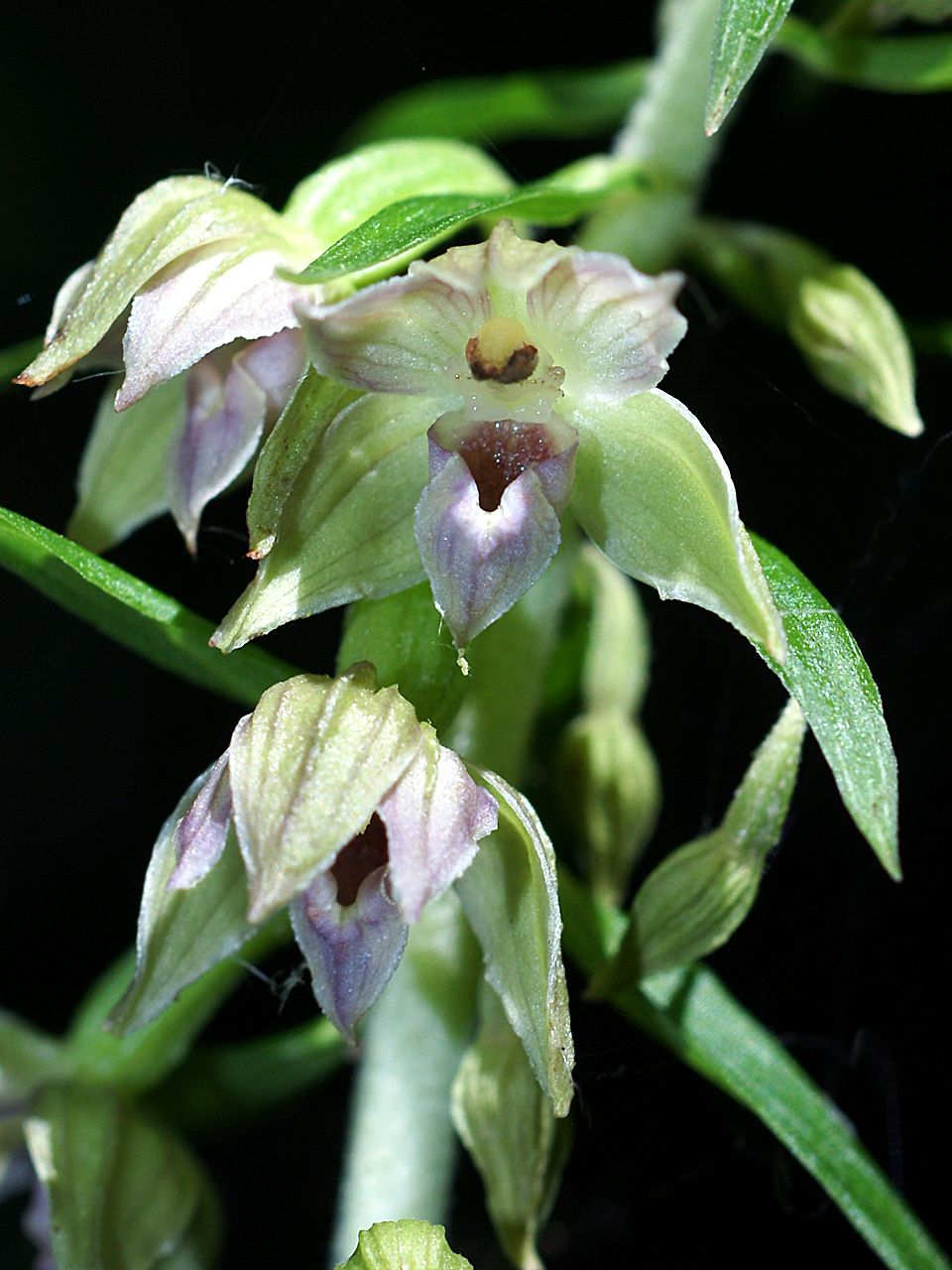 Epipactis leptochila - flowers